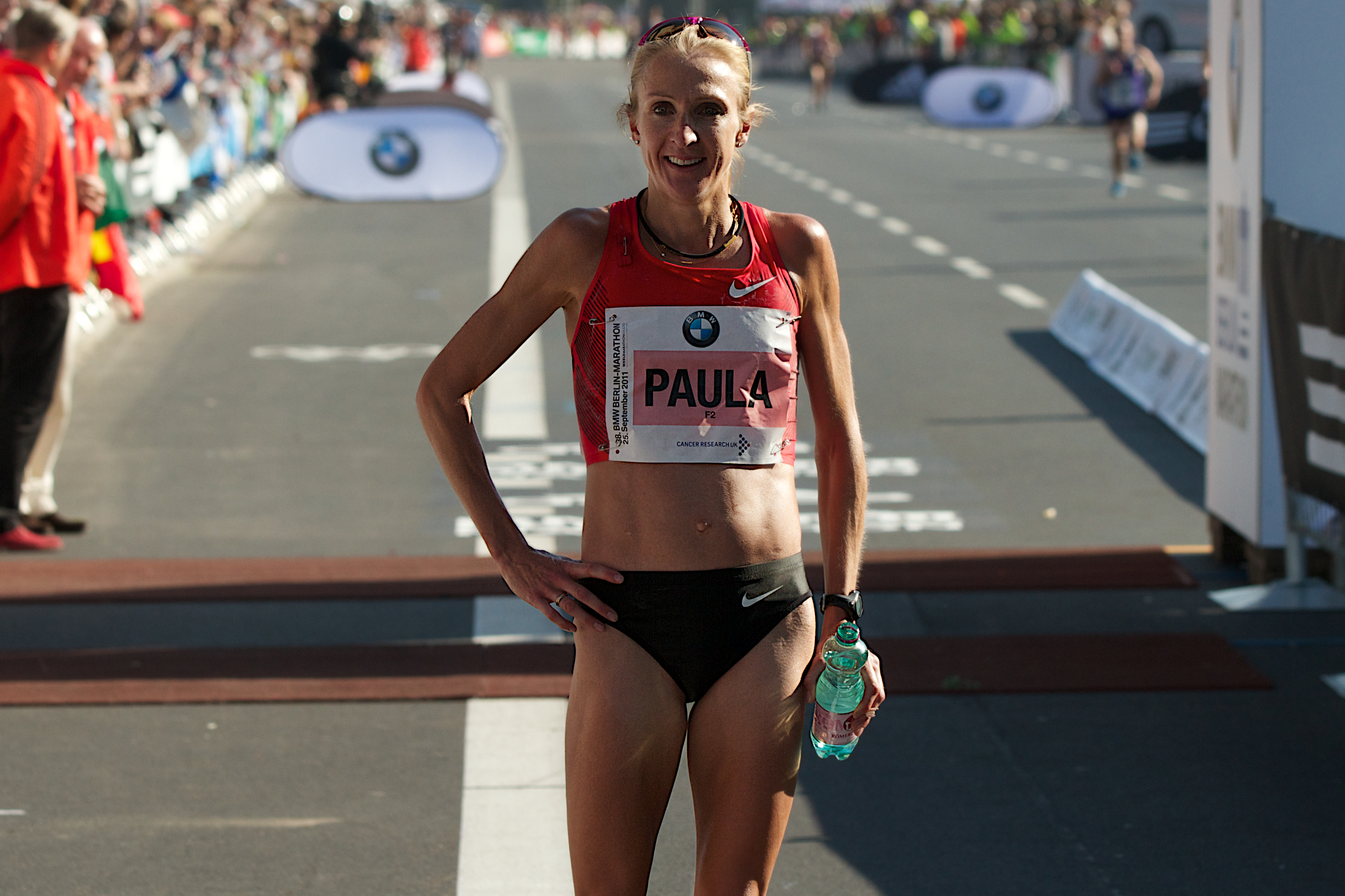 Paula Radcliffe at the Berlin Marathon 2011